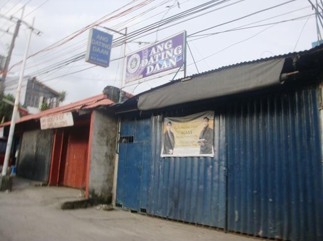 Ang Dating Daan Coordinating Center in Phase 1